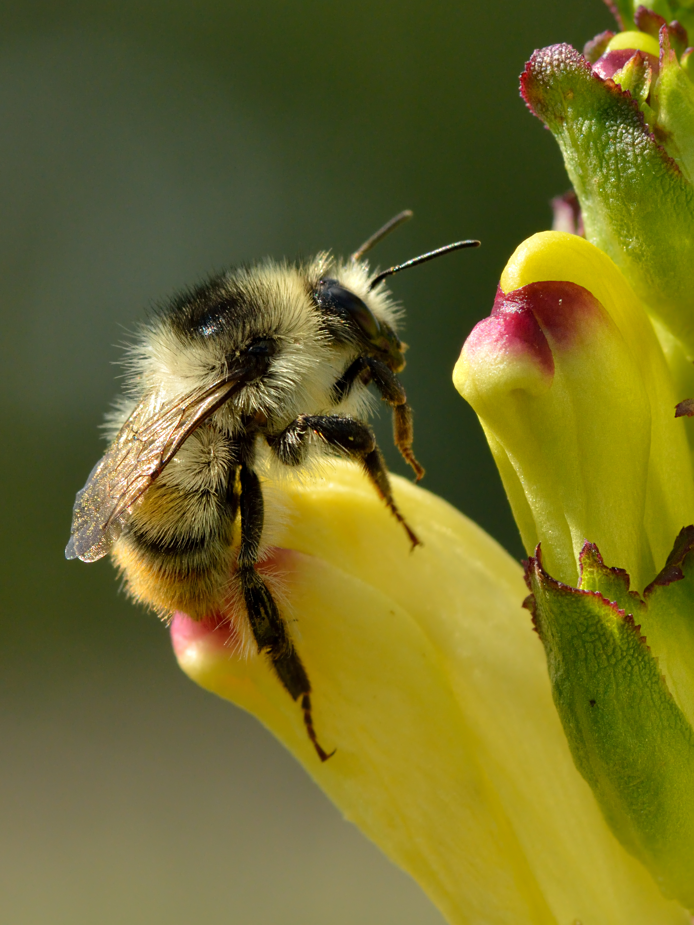 Shrill carder bee (Bombus sylvarum) on the moor-king lousewort (Pedicularis sceptrum-carolinum). Niitvälja bog, Northwestern Estonia.